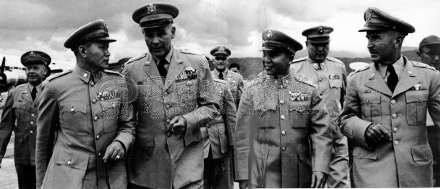 The outbreak of Korean War made the US Armed Forces to assist the defense of Taiwan. Military cooperation between the US troops and Taiwan became closer and closer, and reached its peak with the signing of Sino-American Mutual Defense Treaty. This picture shows the visit by General Taylor, Eighth US Army Commander in Korea, to Taiwan. Key general officers from left to right: Sun Li-jen, Maxwell Taylor, Peng Meng-ji and William Chase.